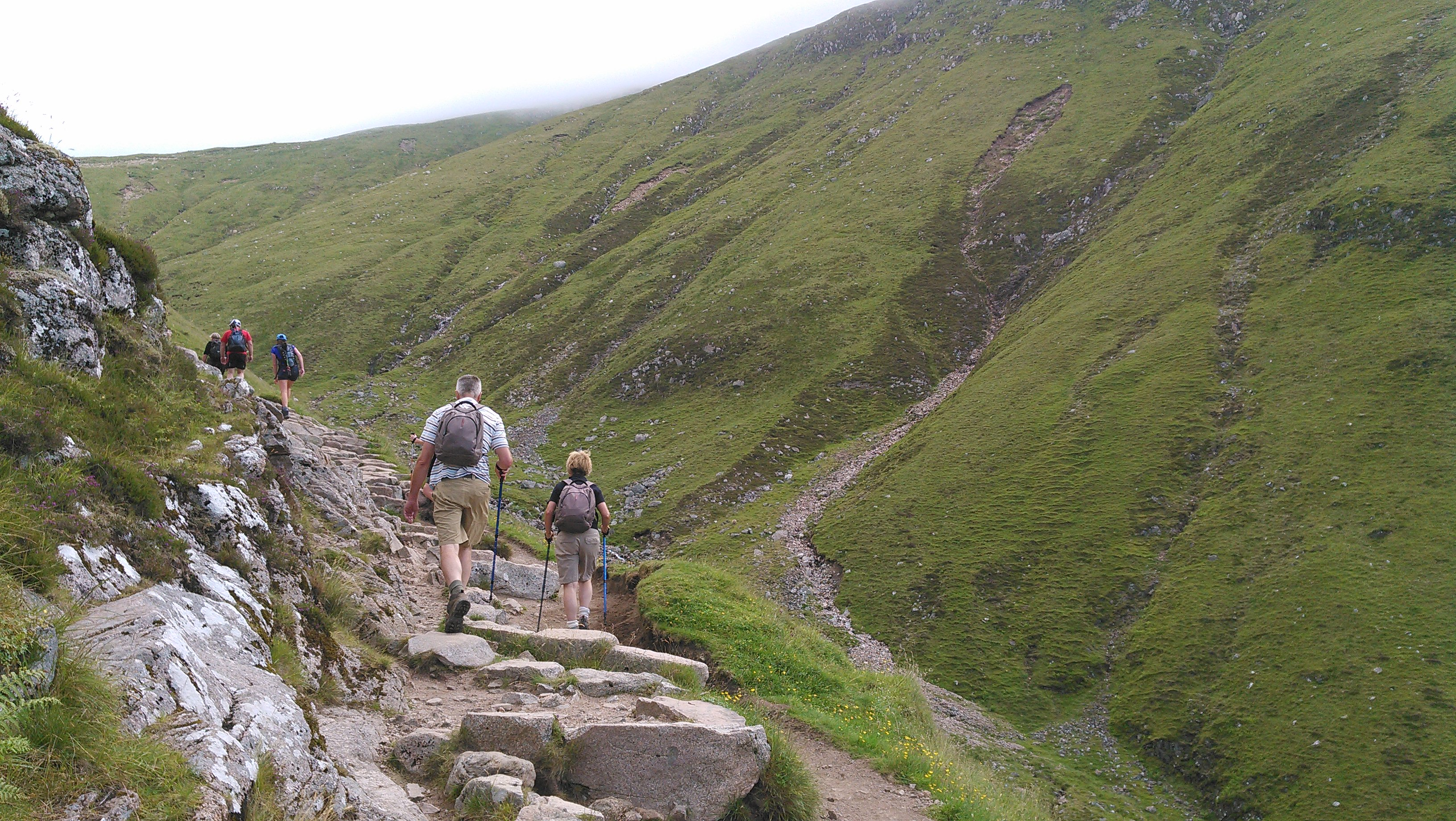 Ascend of the Ben Nevis from the Pony Track